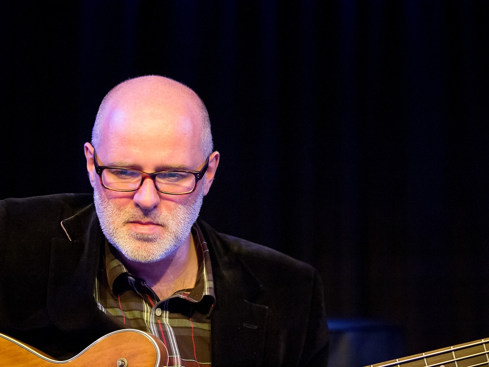 Skúli Sverrisson, Jazz bassist; Picture taken in Jazz Club Unterfahrt, Munich/Bavaria